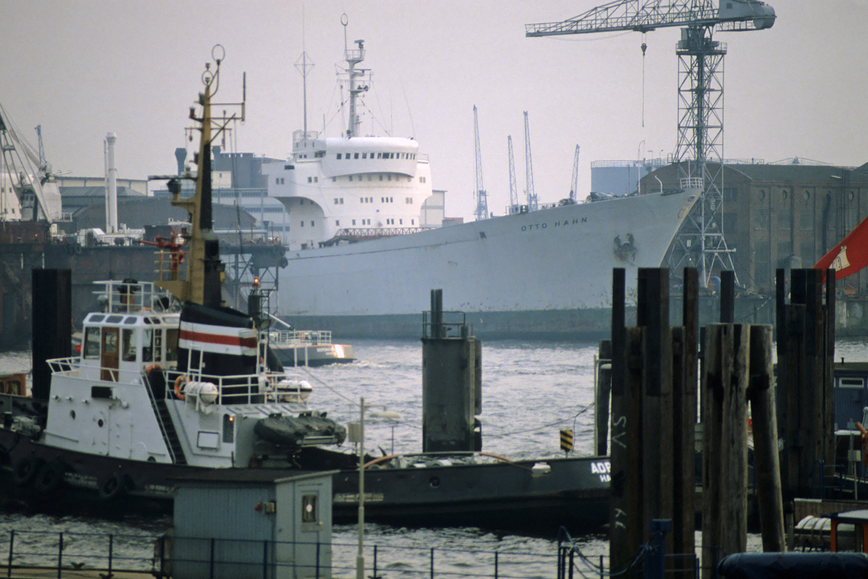 Nuclear-powered cargo vessel 'Otto Hahn' at the port of Hamburg